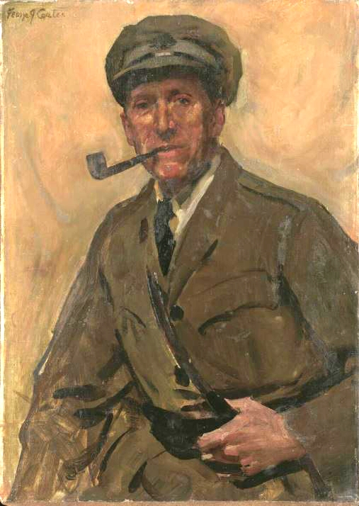 Portrait of Frederick Leist (1873-1945)